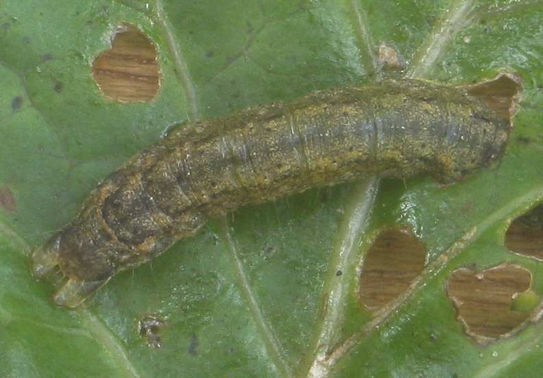 Mamestra brassicae on Curly kale